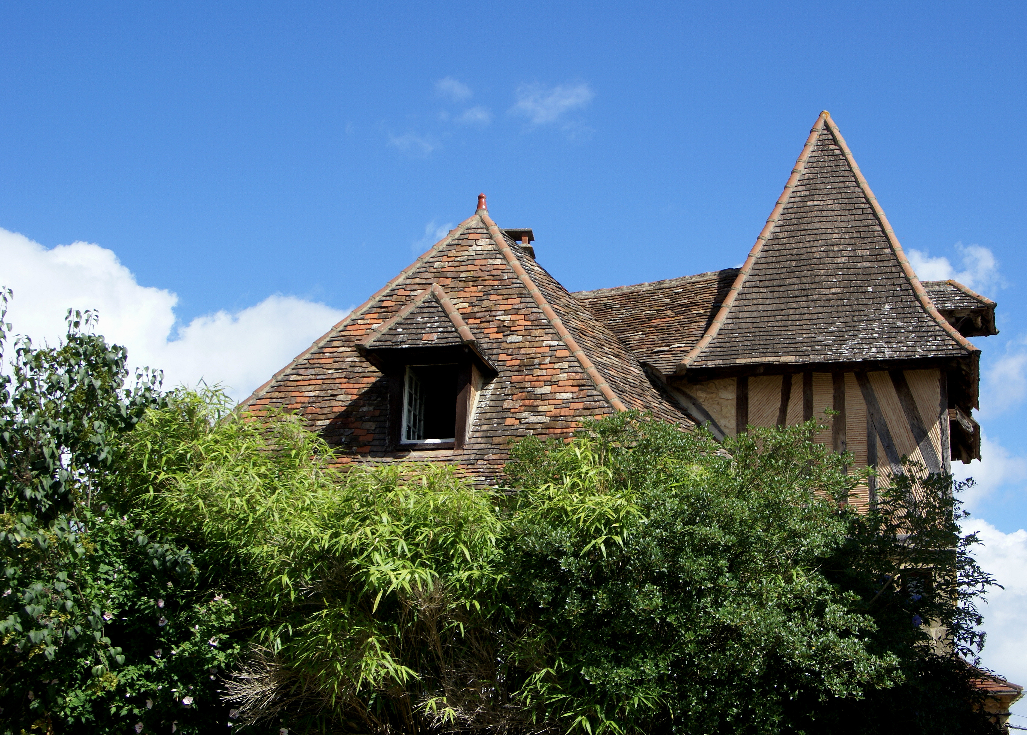 House in Lanquais, Dordogne, France